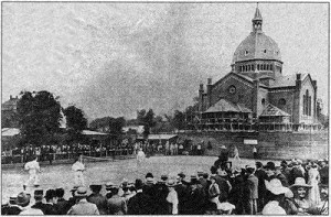 St. Markus Kirke in the Frederiksberg district of Copenhagen, Denmark. Photograph from shortly after its completion in 1902